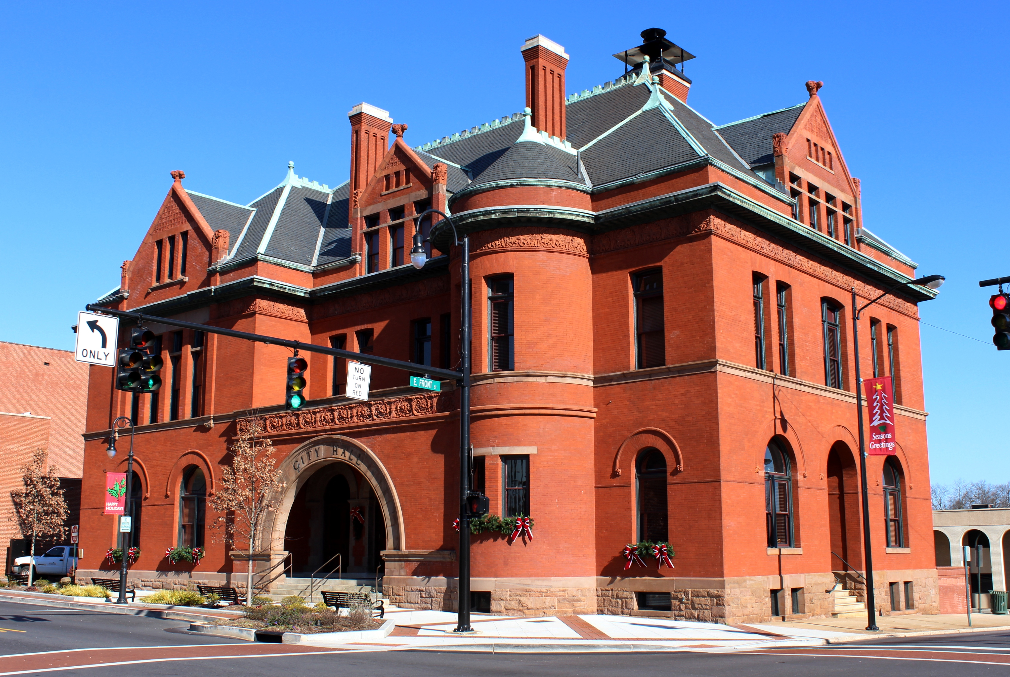 Statesville City Hall Building c. 1890-92, North Carolina